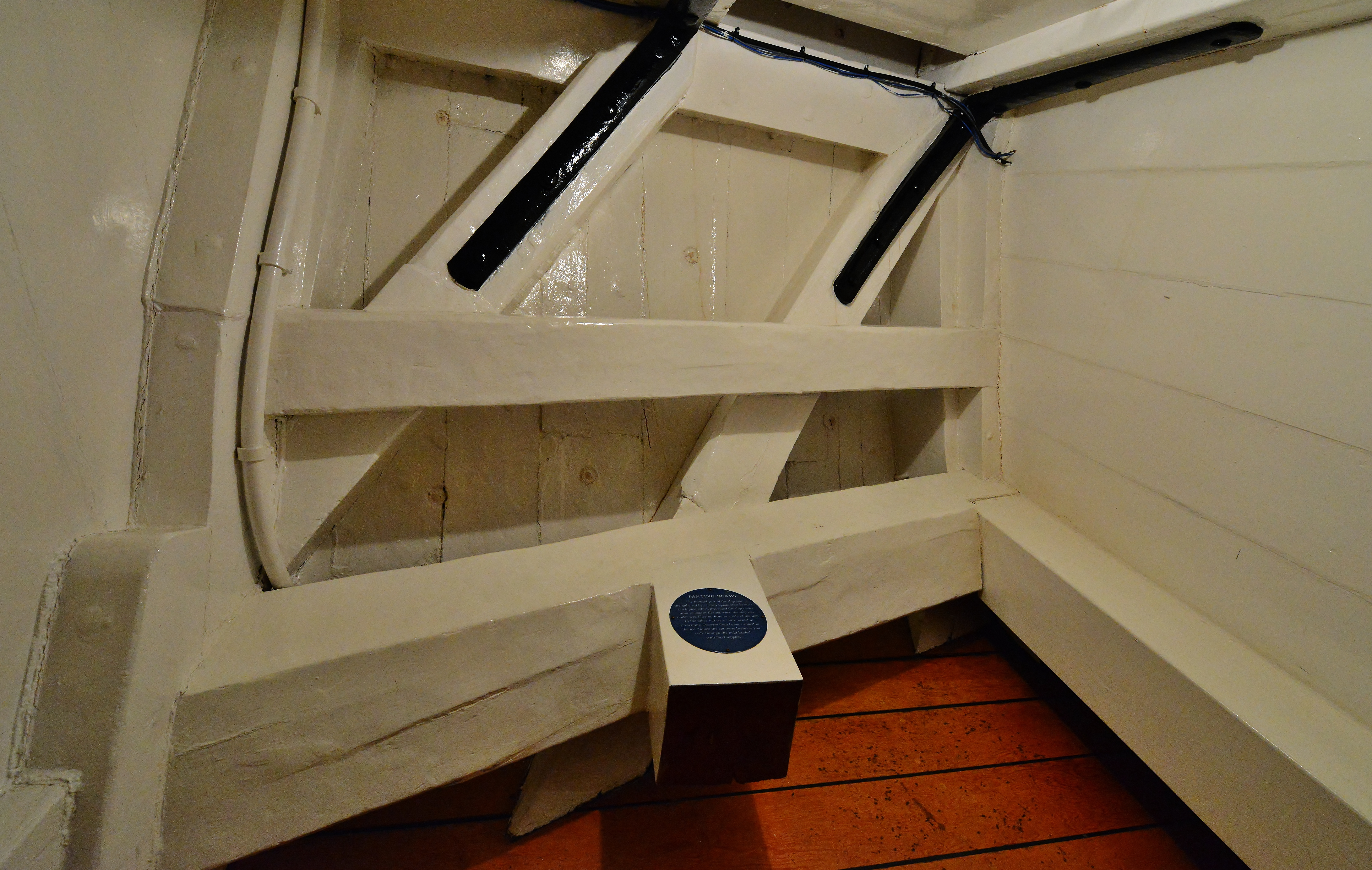 Photo by Michael Garlick